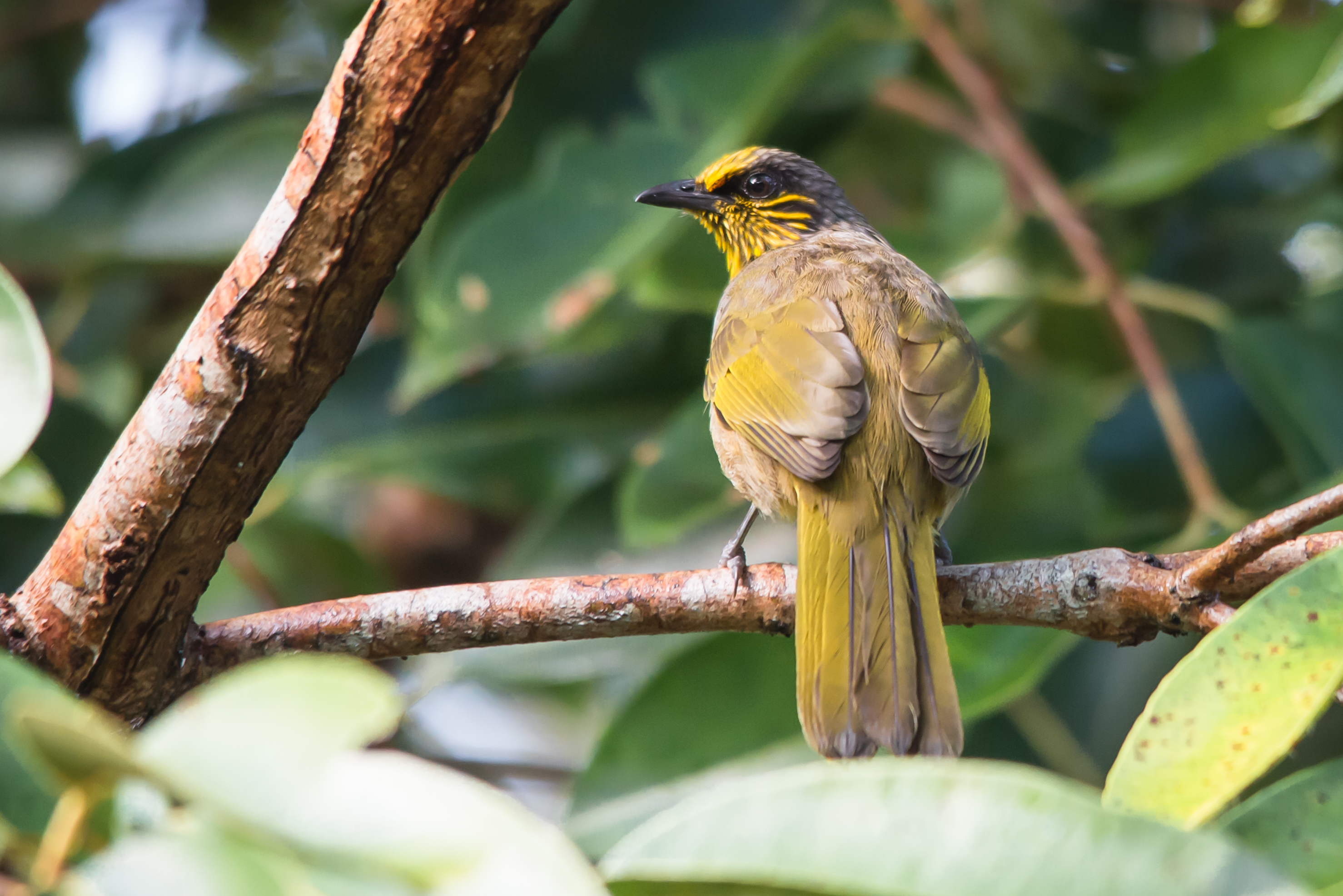 Stripe-throated bulbul, Pycnonotus finlaysoni - Khao Yai National Park Photo by